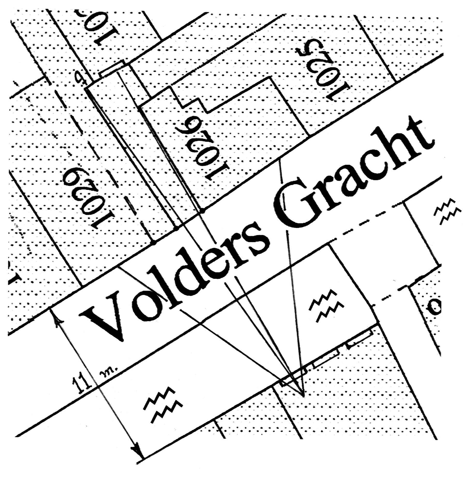 View on Voldersgracht from the back of house 'Mechelen', where painter Vermeer lived in his early years. The narrow angle between the sightlines shows the view into the gate on Voldersgracht